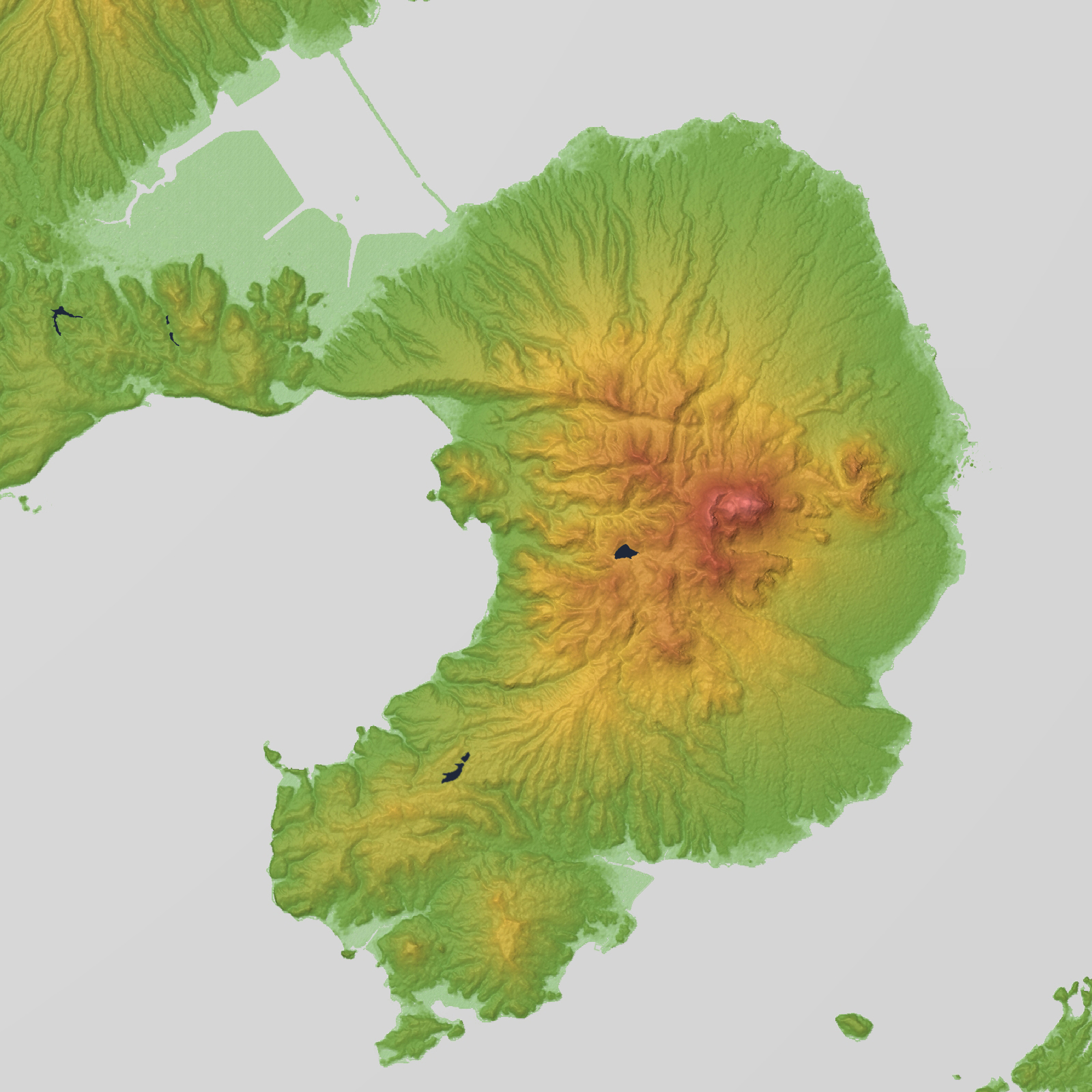 Shimabara Peninsula in Nagasaki Prefecture, Kyushu, Japan.